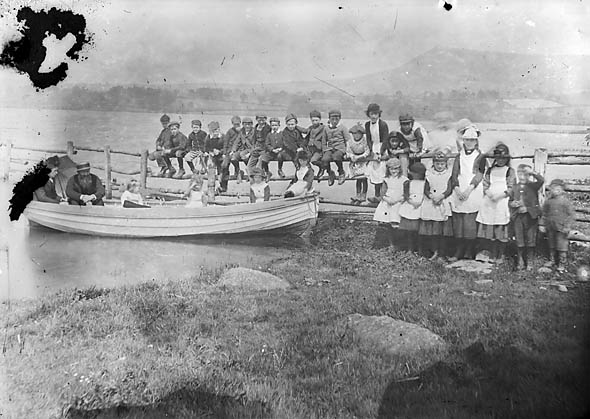 1 negative : glass, dry plate, b&w ; 12 x 16.5 cm.